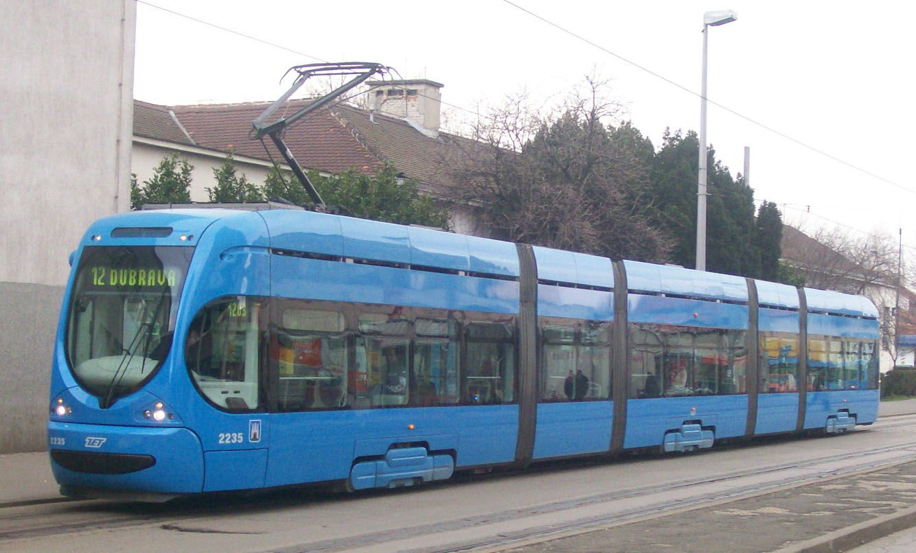 Crotram TMK 2200 tram (#2235) in Zagreb, Croatia. Built 2006.